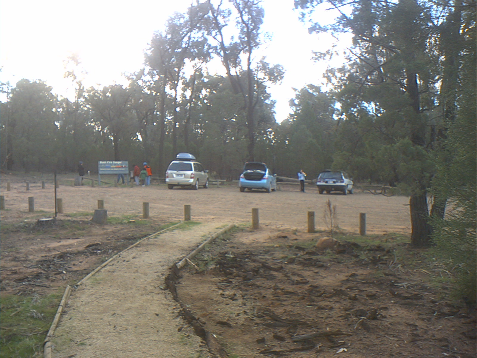 Holy Camp at Weddin Mountains. View of the carpark taken from the toilet block.